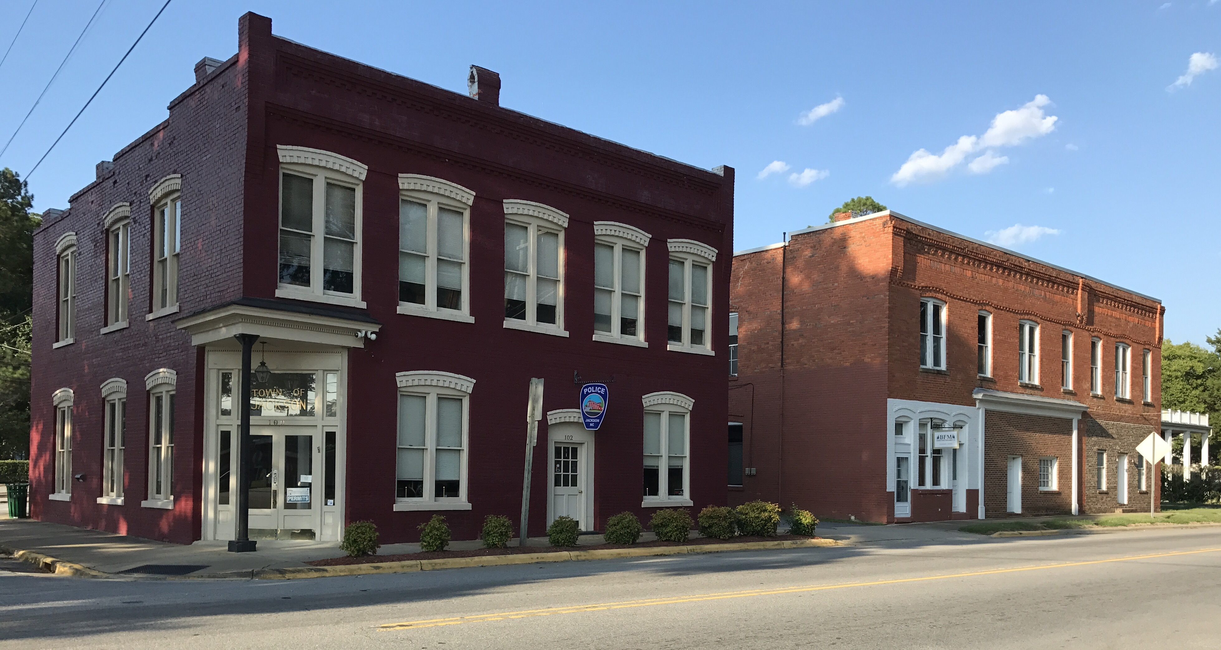 Buildings in Jackson; Bank of Northampton on the left